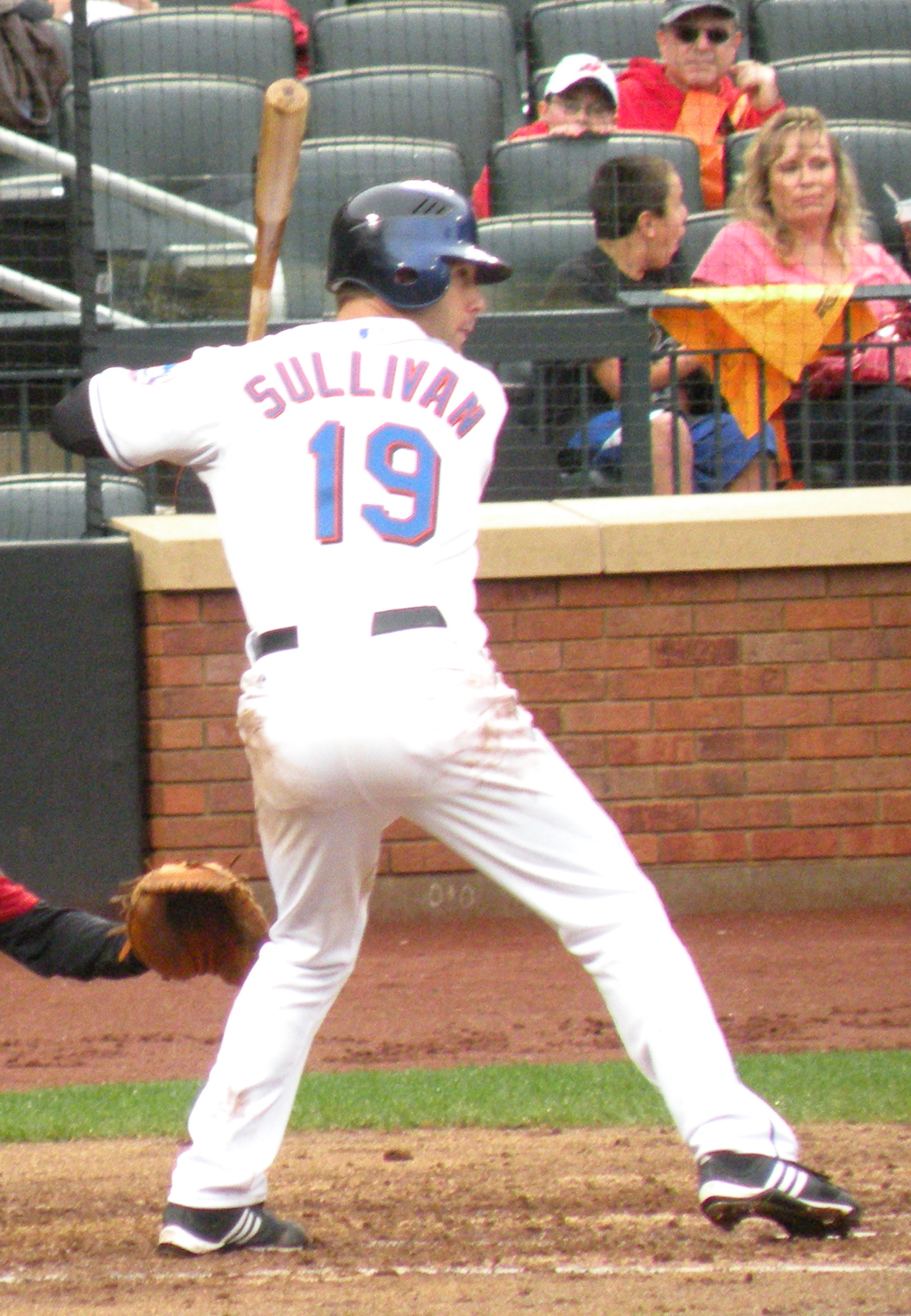 Cory Sullivan